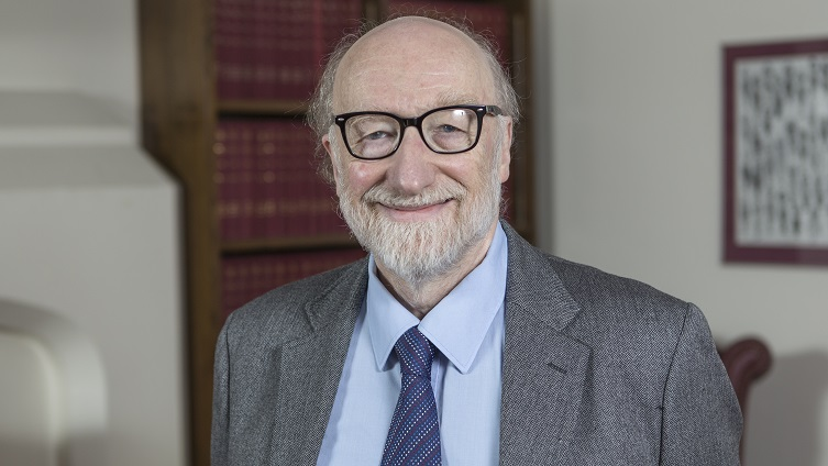 Lord Greaves